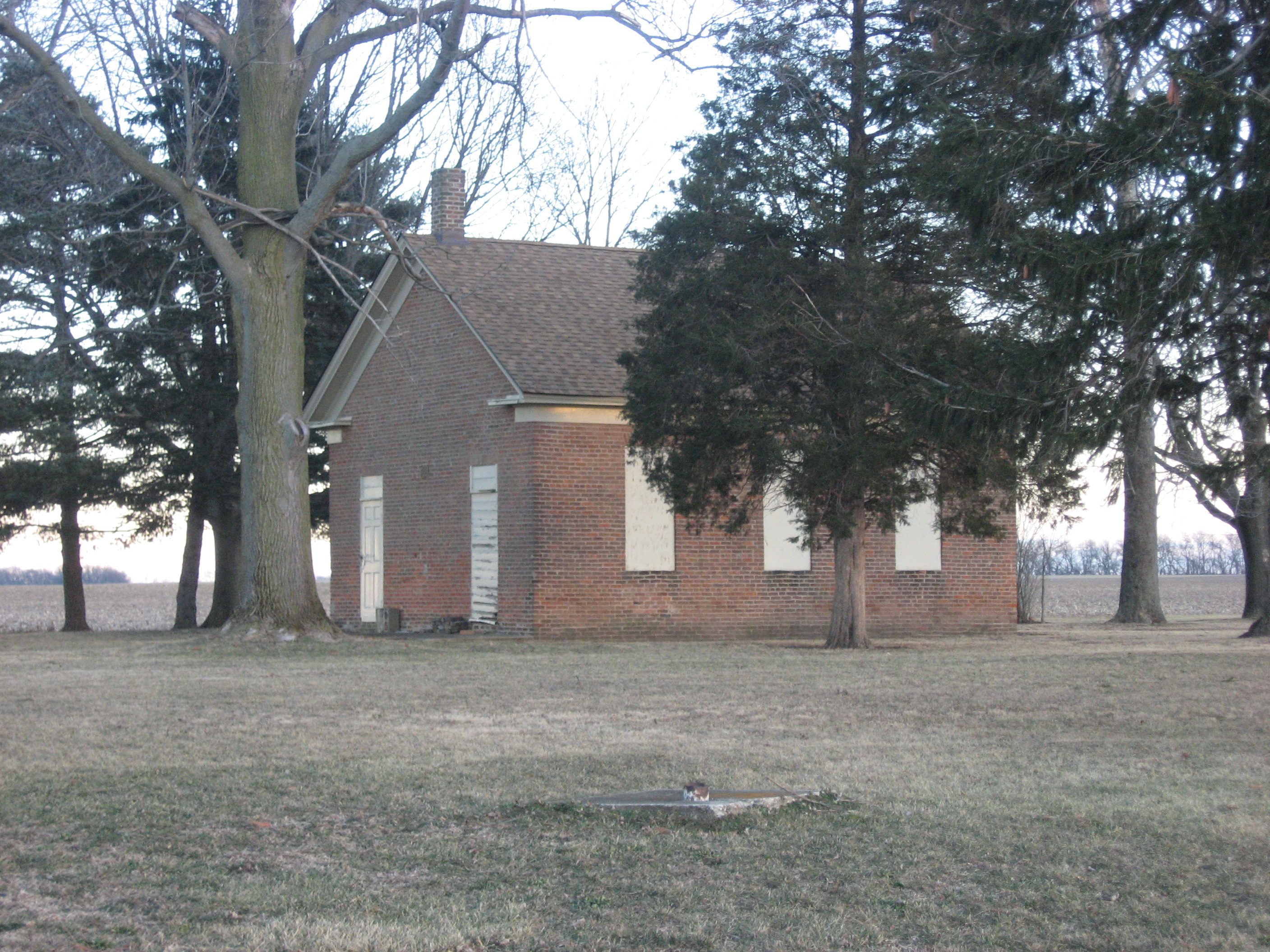 Western side and front of the Pine Grove Community Club building, a former school located on the southeastern corner of the junction of 1500N and 1300E north-northwest of Paris in Edgar Township, Edgar County, Illinois, United States. The building is listed on the National Register of Historic Places.